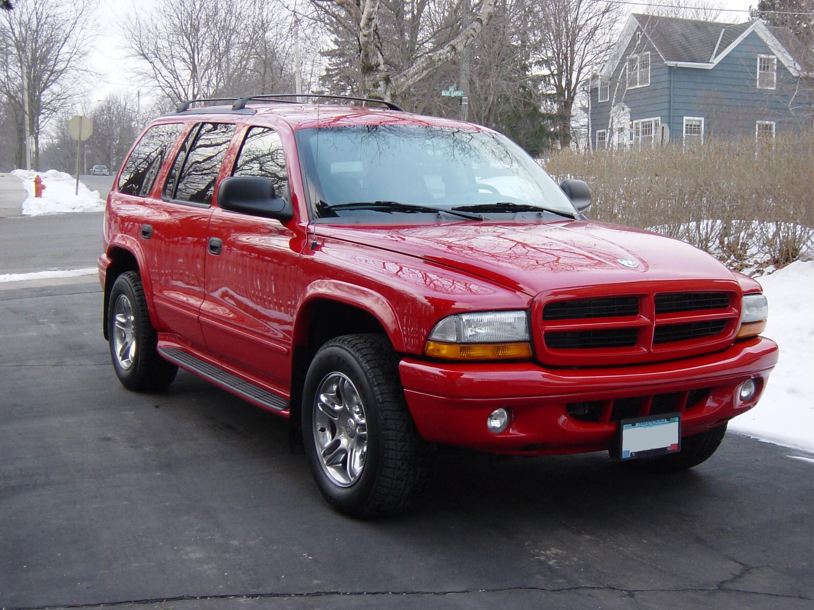 2003 Dodge Durango SLT with R/T wheels